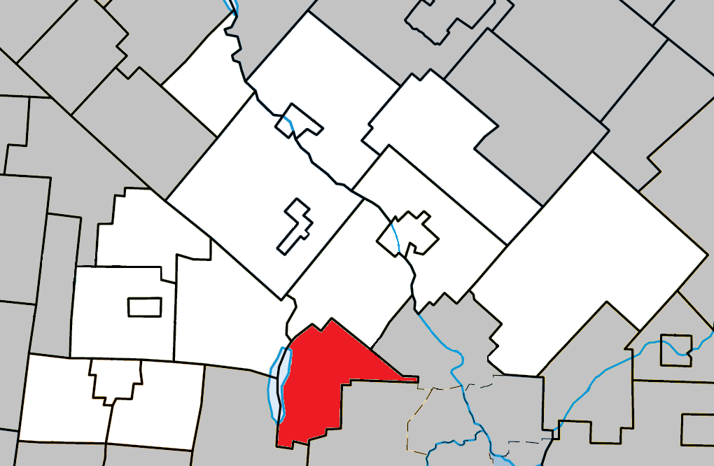 Location of Saint-Denis-de-Brompton, Quebec within Le Val-Saint-François Regional County Municipality